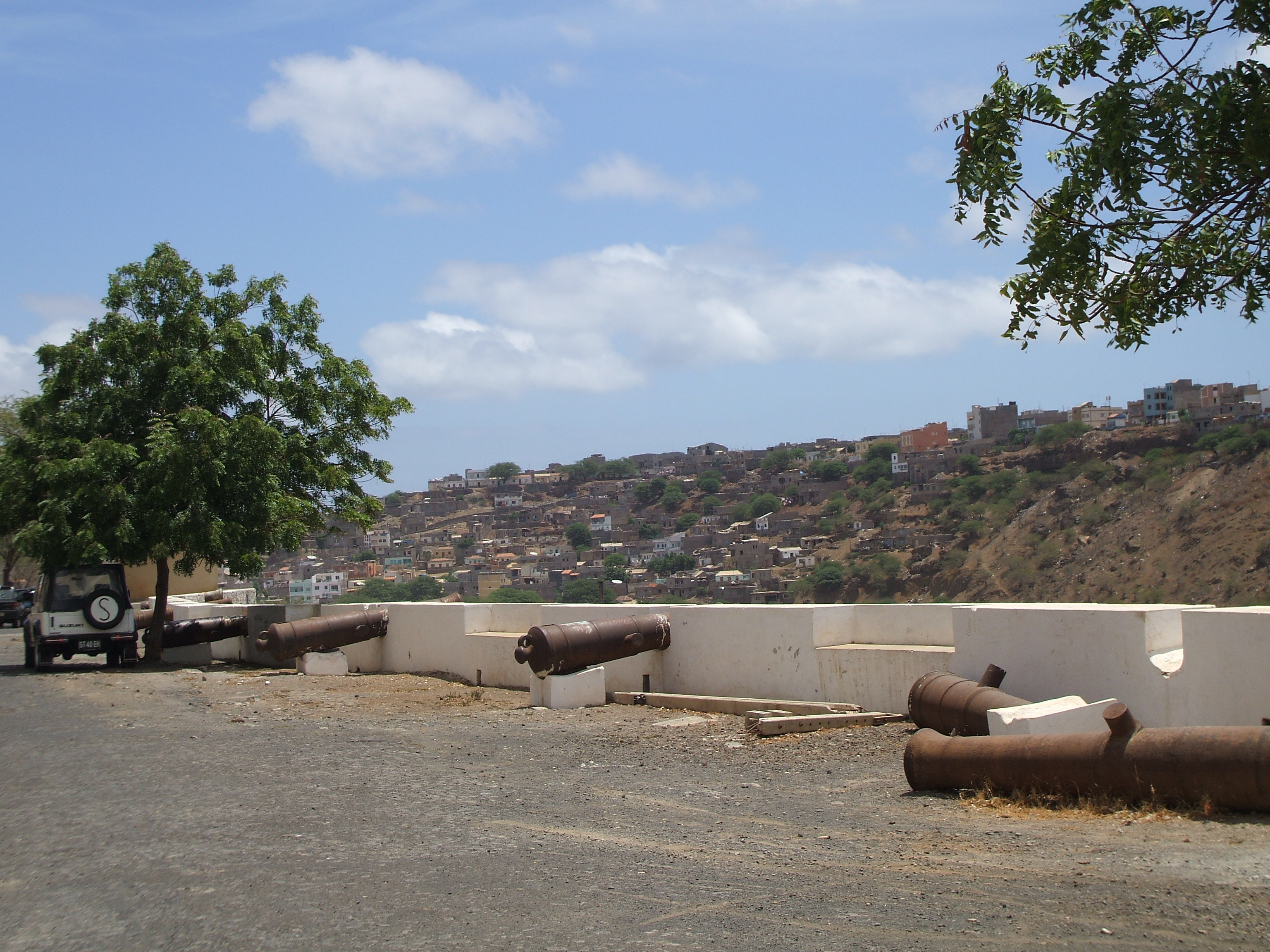 View over Achada Grande from Plateau, in Praia